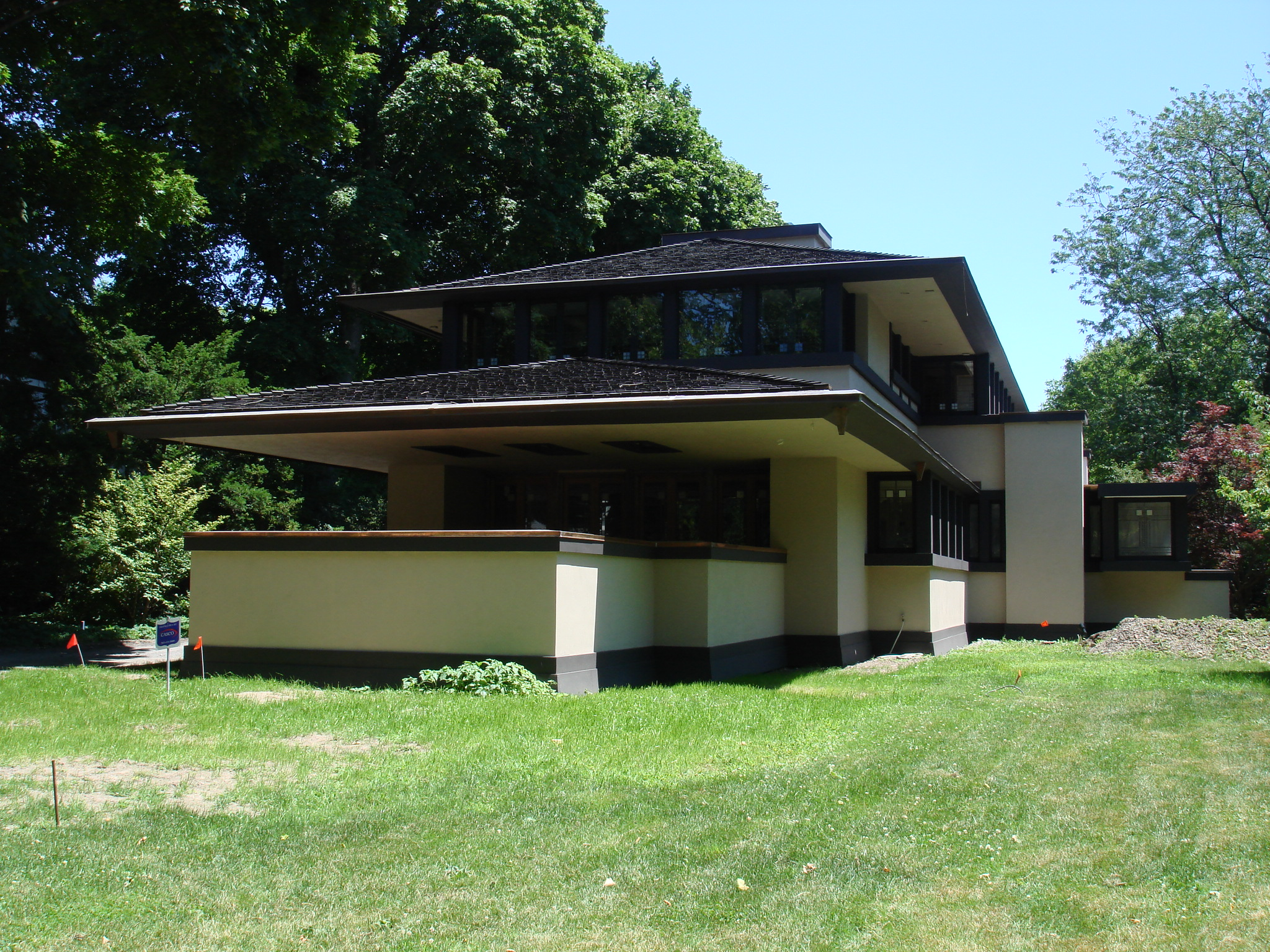 Edward E. Boynton House, 16 East Boulevard, Rochester, New York (view from East Boulevard) Designed by Frank Lloyd Wright